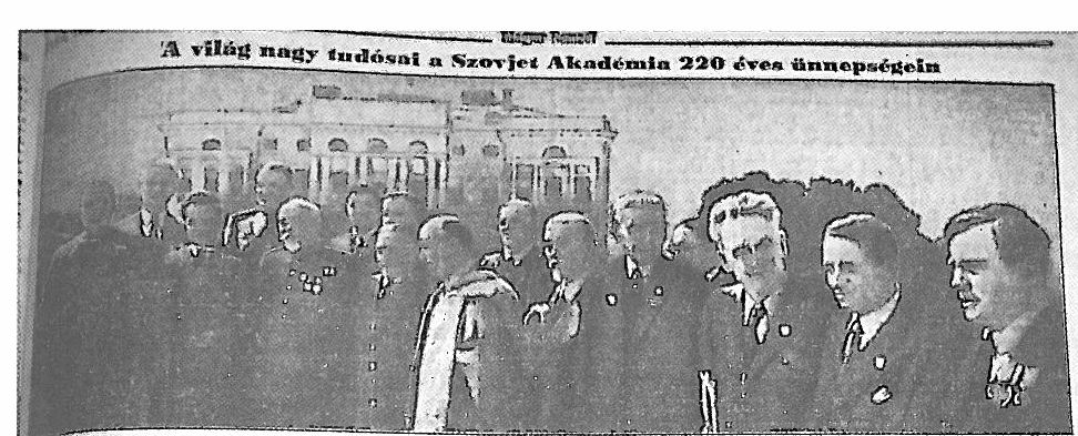 Szent-Györgyi in the Soviet Union